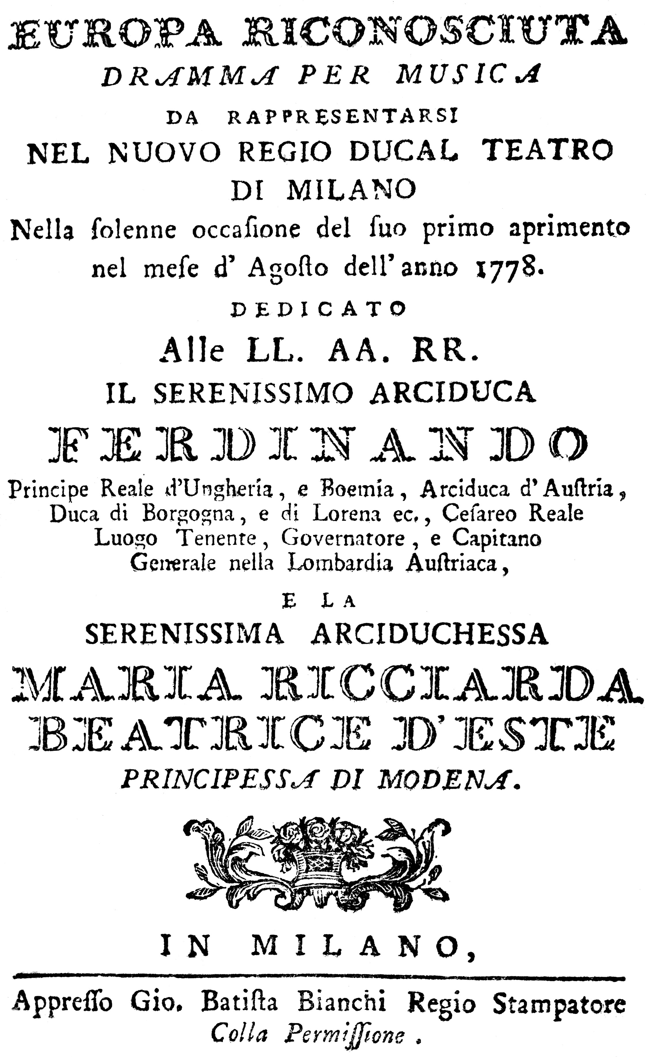 The image represents the original poster of the opera Europa riconosciuta by Antonio Salieri, 1778 August 3